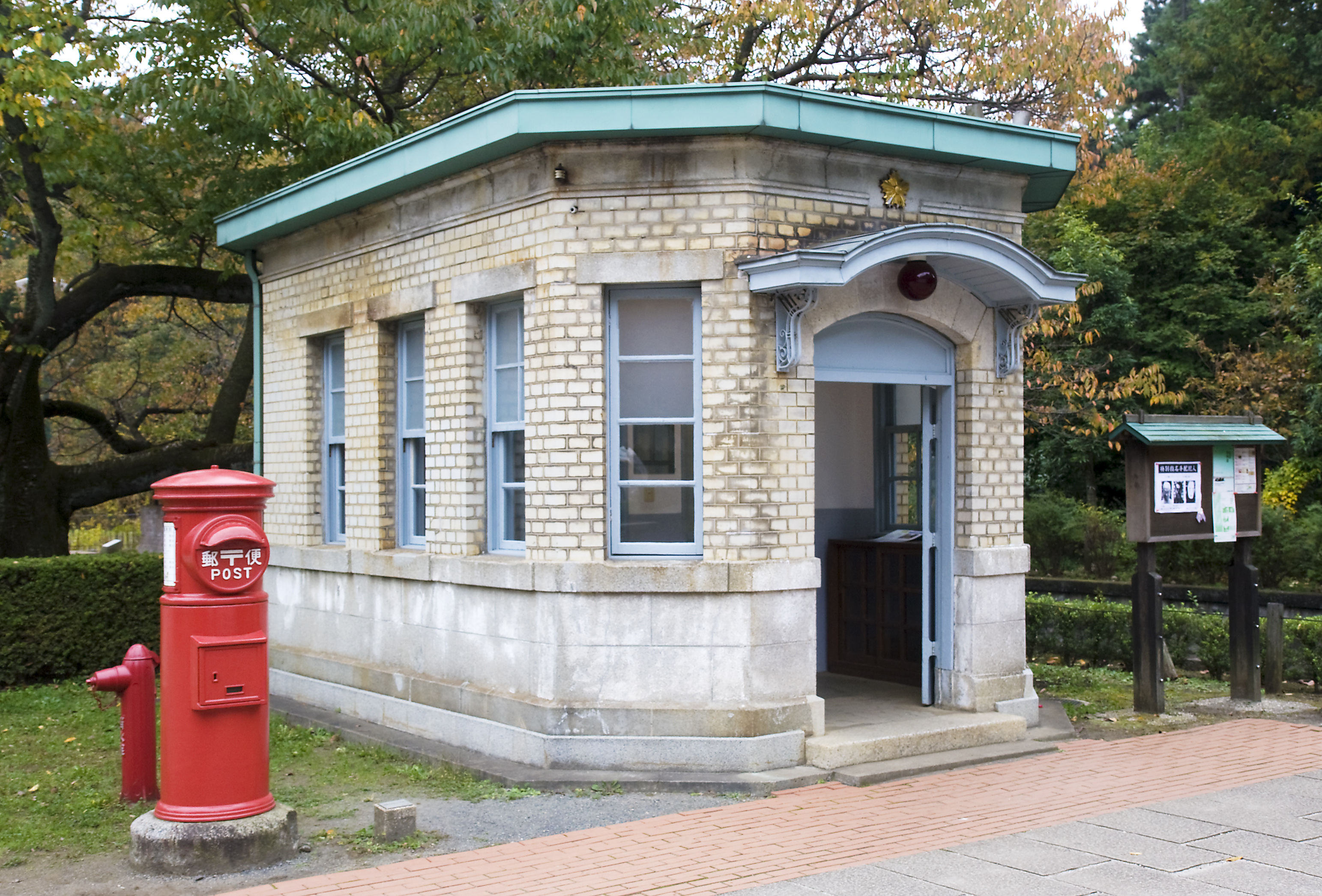 Koban (police box) from Sudo-cho, originally located at the foot of the Mansei Bridge in Kanda, Tokyo. Estimated to have been built during the late Meiji period (1878-1912), it closed down in 1943. Now reconstructed at the Edo-Tokyo Open Air Architectural Museum.